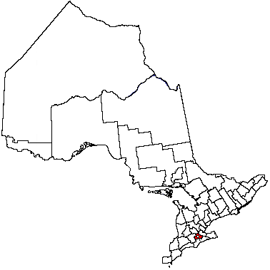 Brant County, Ontario